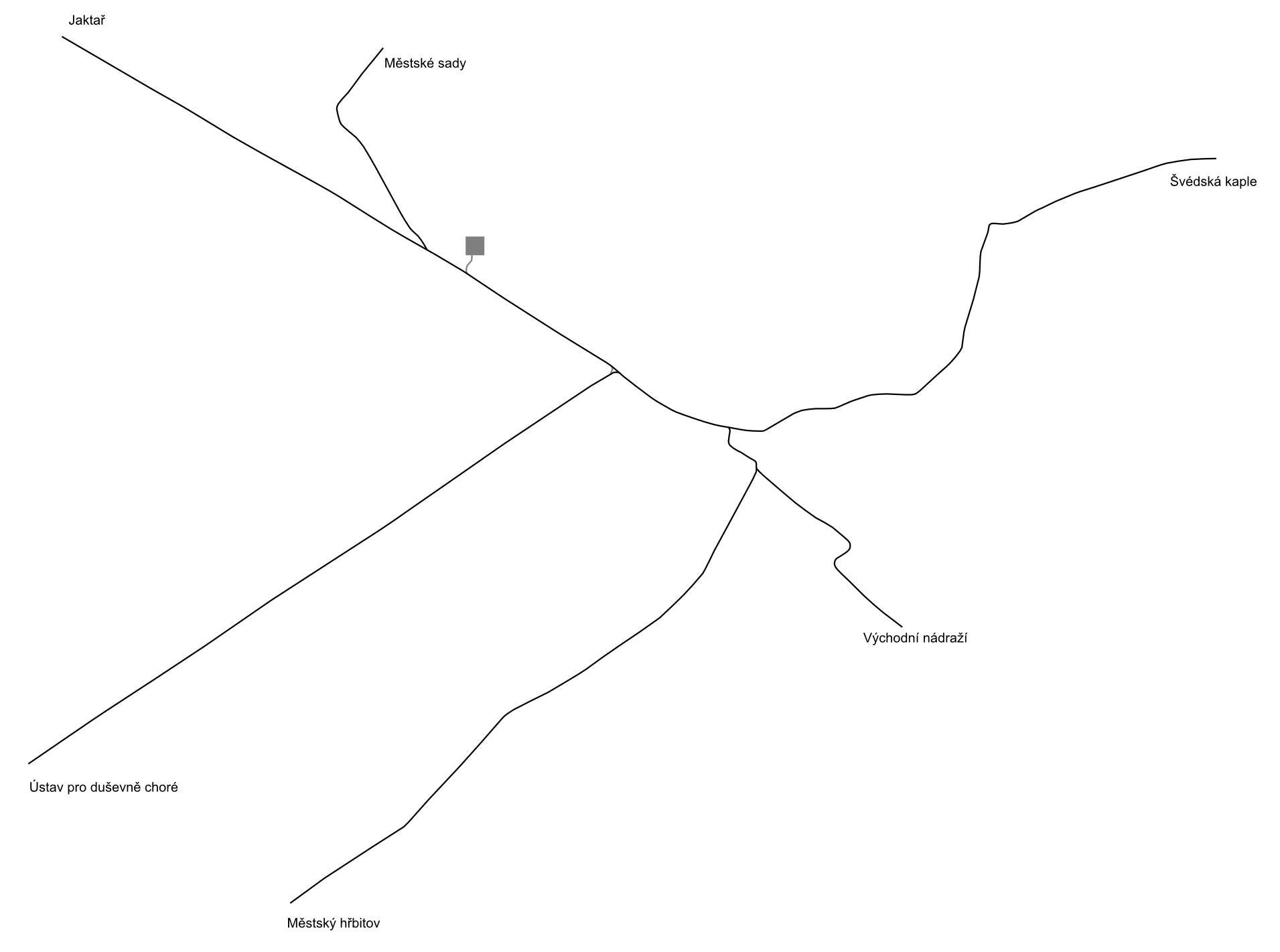 Tram network in Opava (situation in 1949), Czech Republic